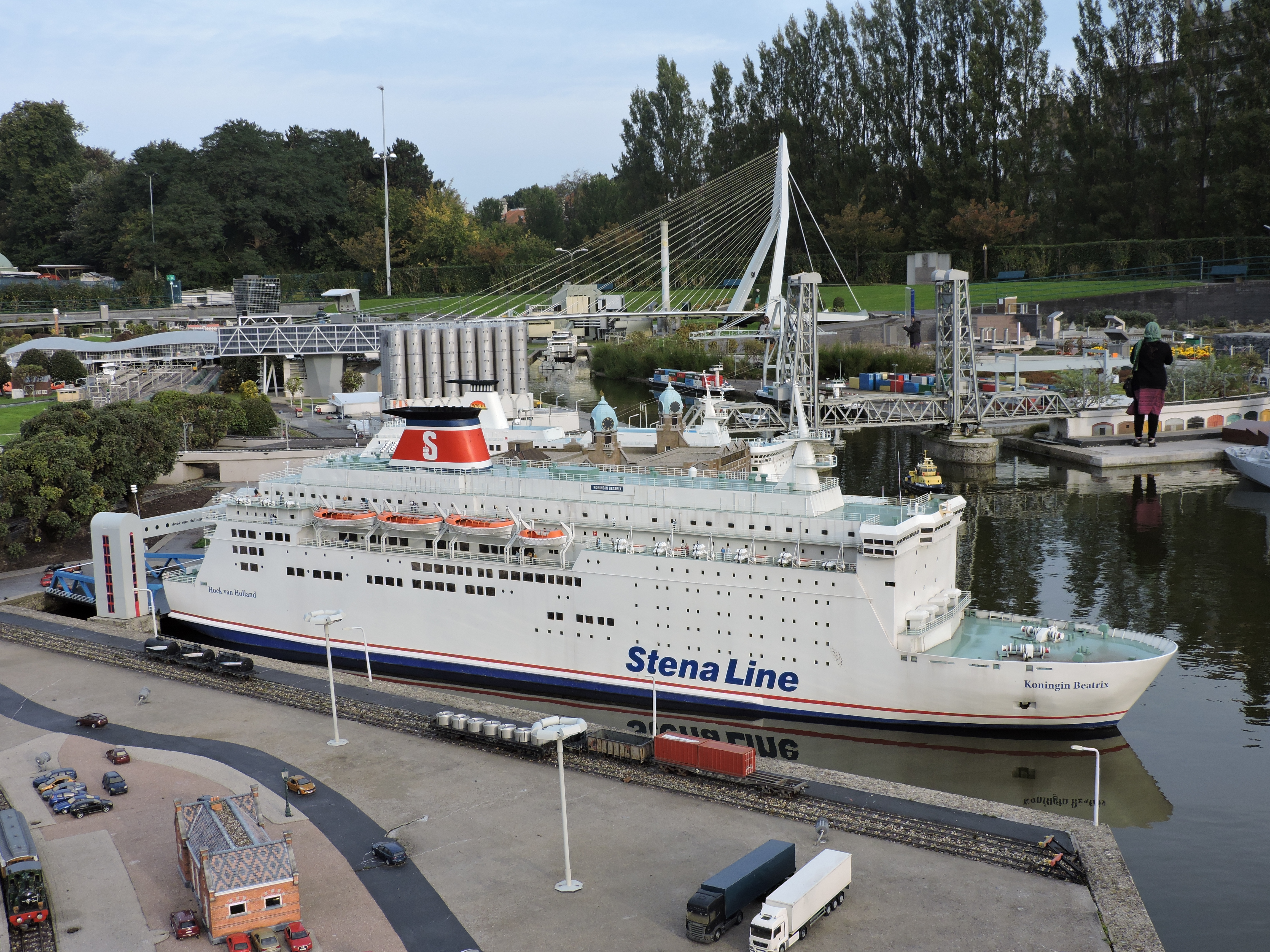 A miniature model of Stena Line cruise ship on display at Madurodam, Holland.